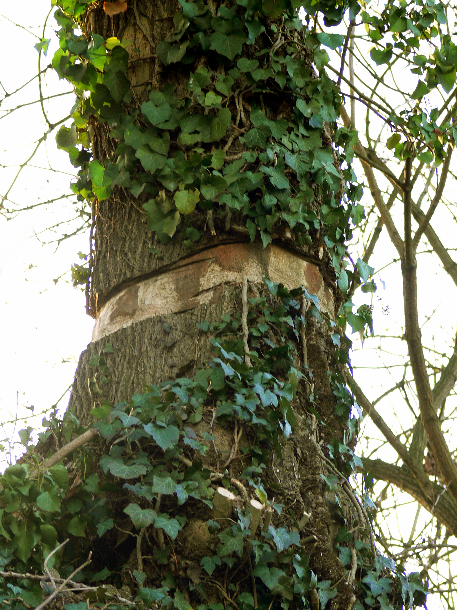 Girdling, also called ring barking or ring-barking, is the process of completely removing a strip of bark (consisting of Secondary Phloem tissue, cork cambium, and cork) around a tree's outer circumference, causing its death. Here girdling occurs by deliberate human action to give new habitats to species of dead woods (Lille, North of France, Parc de la Cidatelle (Bois de Boulogne)